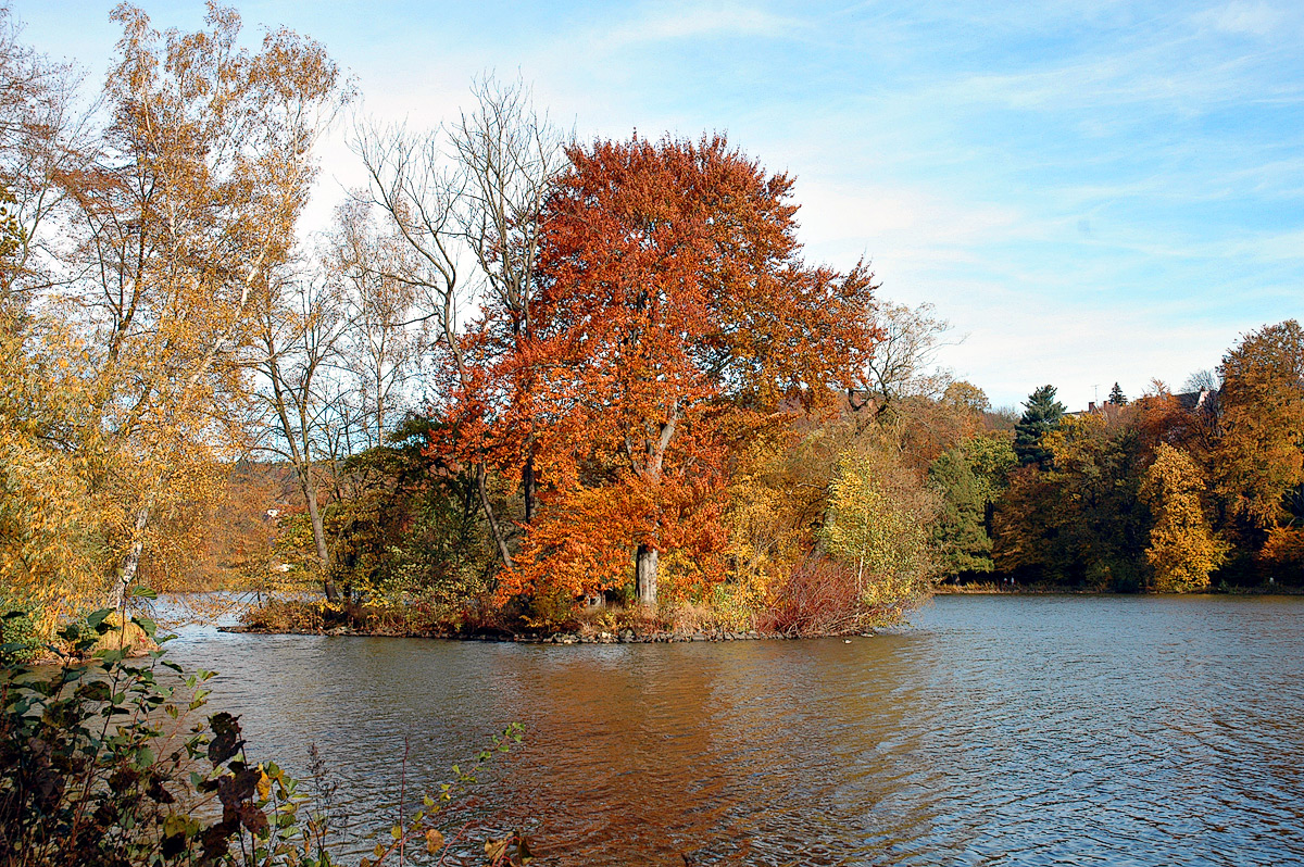 This image shows the Juncus Pond in Greiz (Thuringia, Germany).